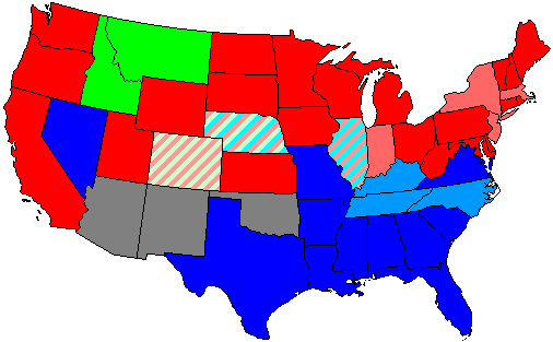 Summary of party control of U.S. house seats in the 57th United States Congress following election. Stripes indicate a tie between two or more parties. Legend: 80.1-100% Democratic seat majority 60.1-80% Democratic seat majority 60% or less Democratic seat plurality 60% or less Republican seat plurality 60.1-80% Republican seat majority 80.1-100% Republican seat majority 60% or less Populist seat plurality 60.1-80% Populist seat majority 80.1-100% Populist seat majority